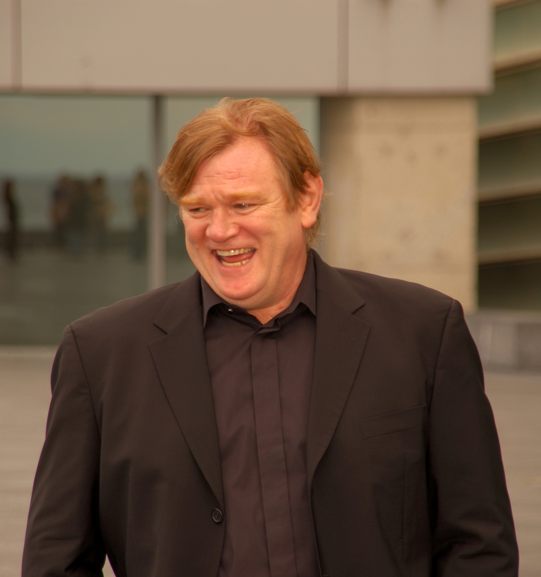 Brendan Gleeson at the 2005 San Sebastian International Film Festival.Brendan Gleeson